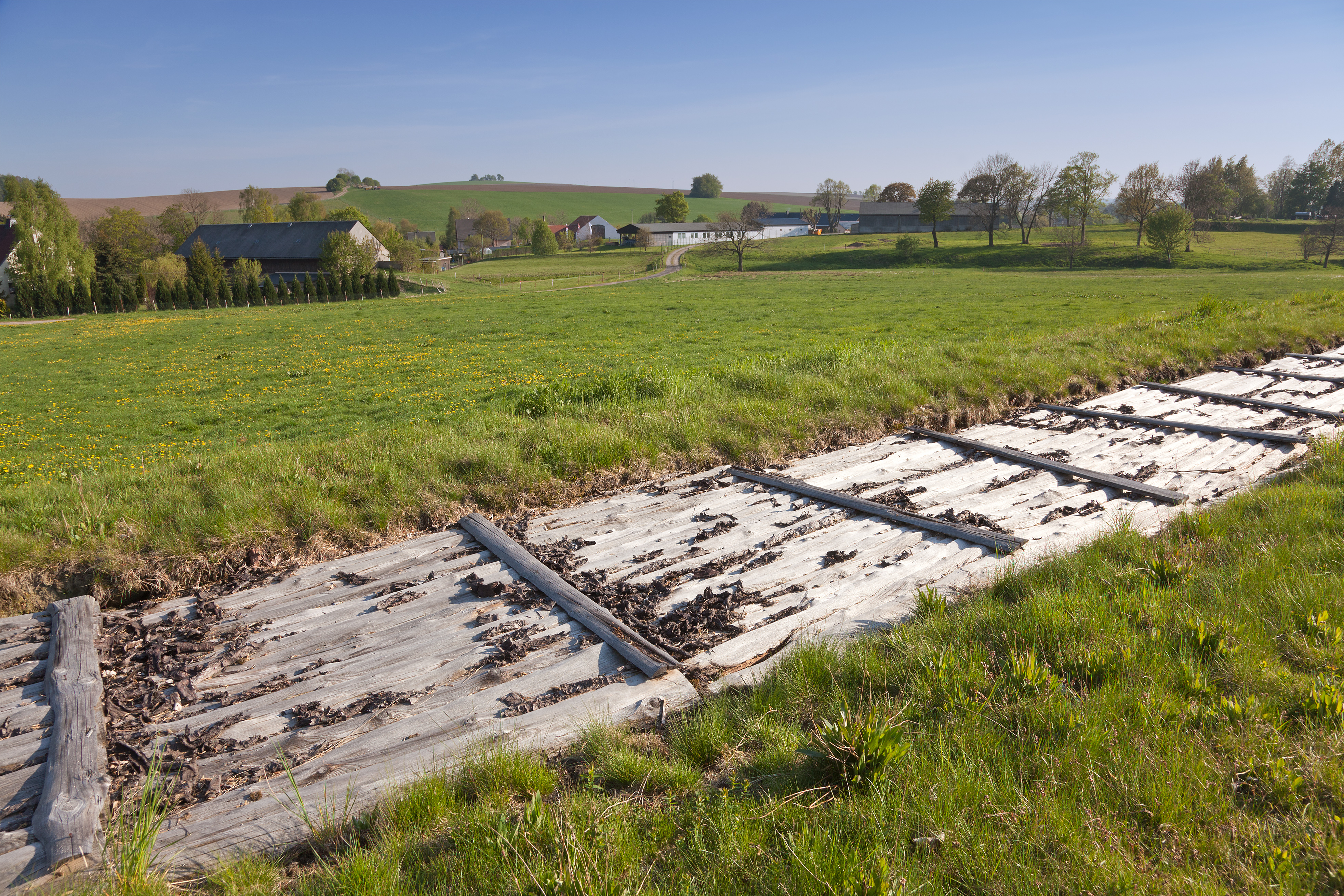 Müdisdorfer Kunstgraben (channel made for technical purposes in the Saxon mining region Großhartmannsdorf and Brand-Erbisdorf, Saxony)